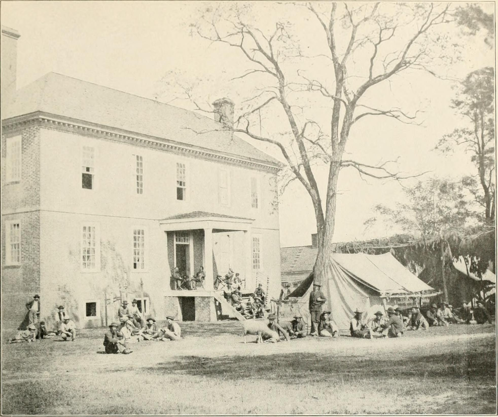 Title: The photographic history of the Civil War : thousands of scenes photographed 1861-65, with text by many special authorities Year: 1911 (1910s) Authors: Miller, Francis Trevelyan, 1877-1959 Lanier, Robert S. (Robert Sampson), 1880- Subjects: United States -- History Civil War, 1861-1865 Pictorial works United States -- History Civil War, 1861-1865 Publisher: New York : Review of Reviews Co. Text Appearing Before Image: ' Text Appearing After Image: COPtRIGMT, 1911, REVIEW OF REVIEWS CO. IN BARRACKS A COMFORTABLE SPOT FOR THE CAVALRY TROOPER These cavalrymen of 64 look comfortable enougli in their l)arrack.s at Giesboro. Wlien tlie cavalry depotwas established there in 63, it was the custom to have the troopers return to the dismounted camp near Wash-ington to be remounted and refitted. Some coffee-coolers purposely lost their equipments and neglectedtheir horses in the field in order to be sent back for a time to the comfortable station. The order was finallygiven by General Meade to forward all horses, arms, and equipments to the soldiers in the field. While the menin this photograph are very much at ease and their lolling attitudes would seem to denote peace rather thanwar, they are probalily none of them self-indulgent troopers who prefer this luxurious resting-place but arepart of the garrison of the post charged with defending the valuable dejjot. There are many Civil War photo-graphs of cattle on the hoof, but this picture